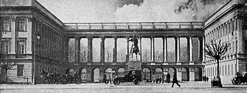 Saxon Palace - Polish General Staff building, where in 1932, Biuro Szyfrów broke the Enigma code and solved the military Enigma with plugboard, the main German cipher device during World War II.